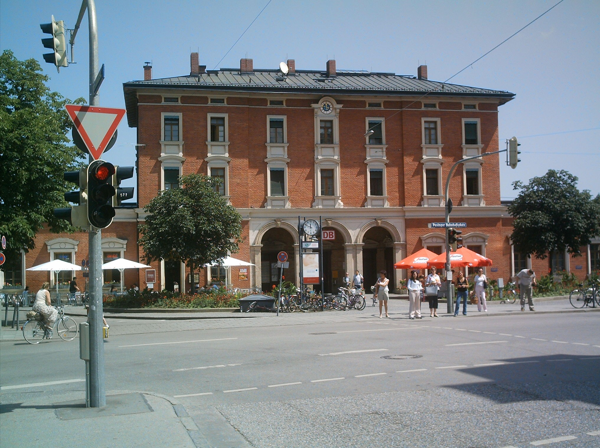 Main building of Pasing railway station (Munich)